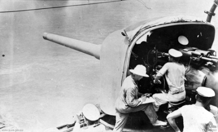 IWM caption : "At sea. c 1913. A 6 inch gun on the light cruiser HMAS Melbourne is timed during a gunnery exercise. The gun is being exercised, the firing timed by a stopwatch." Comment : The gun is BL 6inch Mk XI.